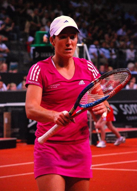 Justine Henin winning the 2010 Stuttgart Porsche Grand Prix